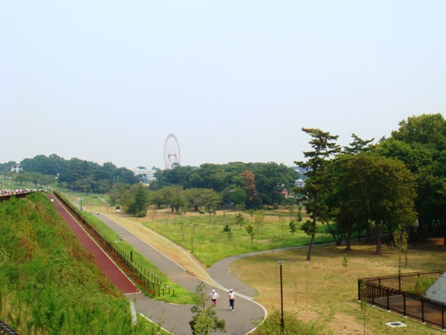 Sayama Park, Higashiyamato.